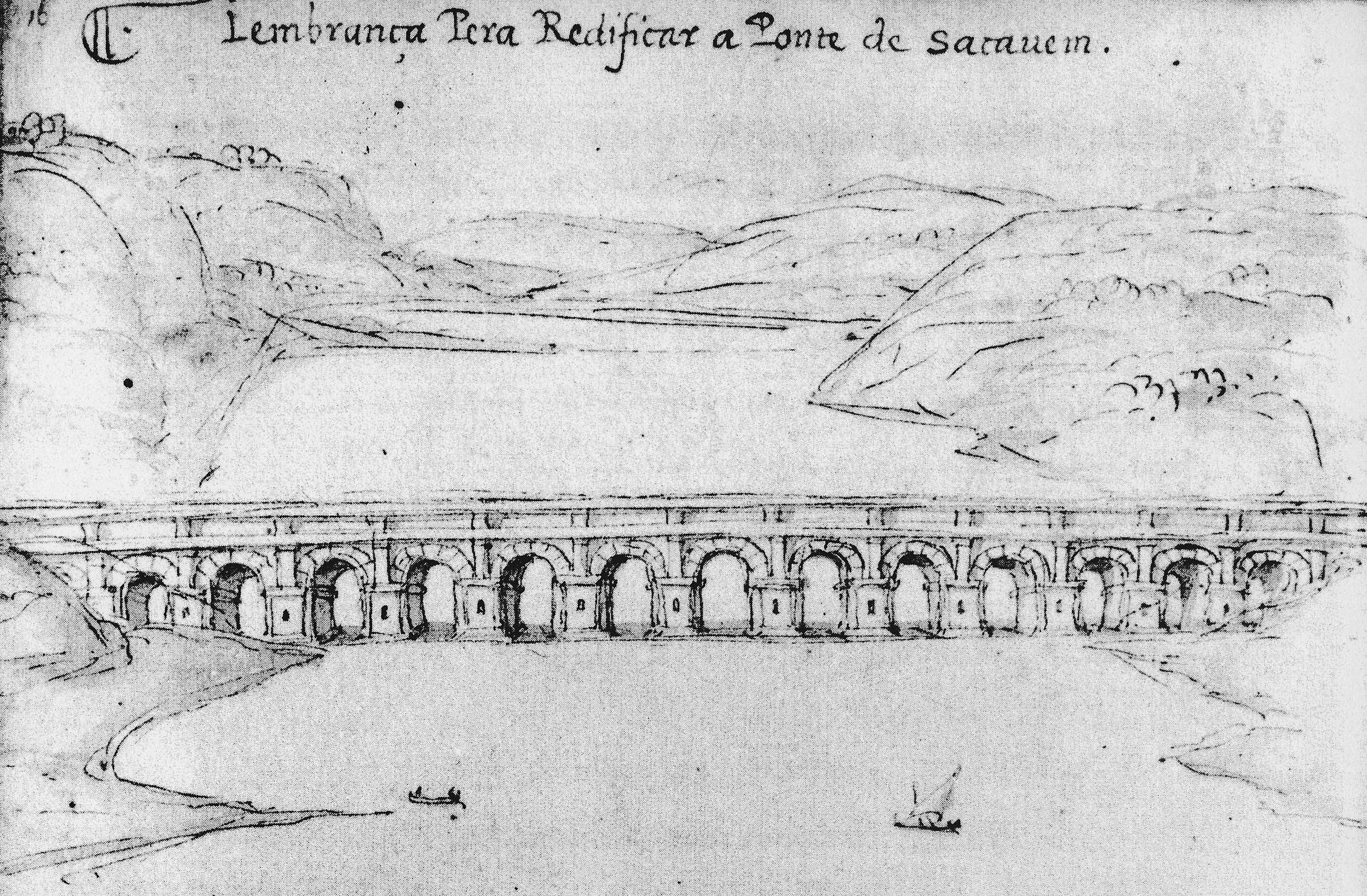 The ancient Roman bridge over the Sacavém river.